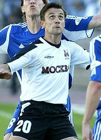 Aleksei Meleshin in action for FC Moscow